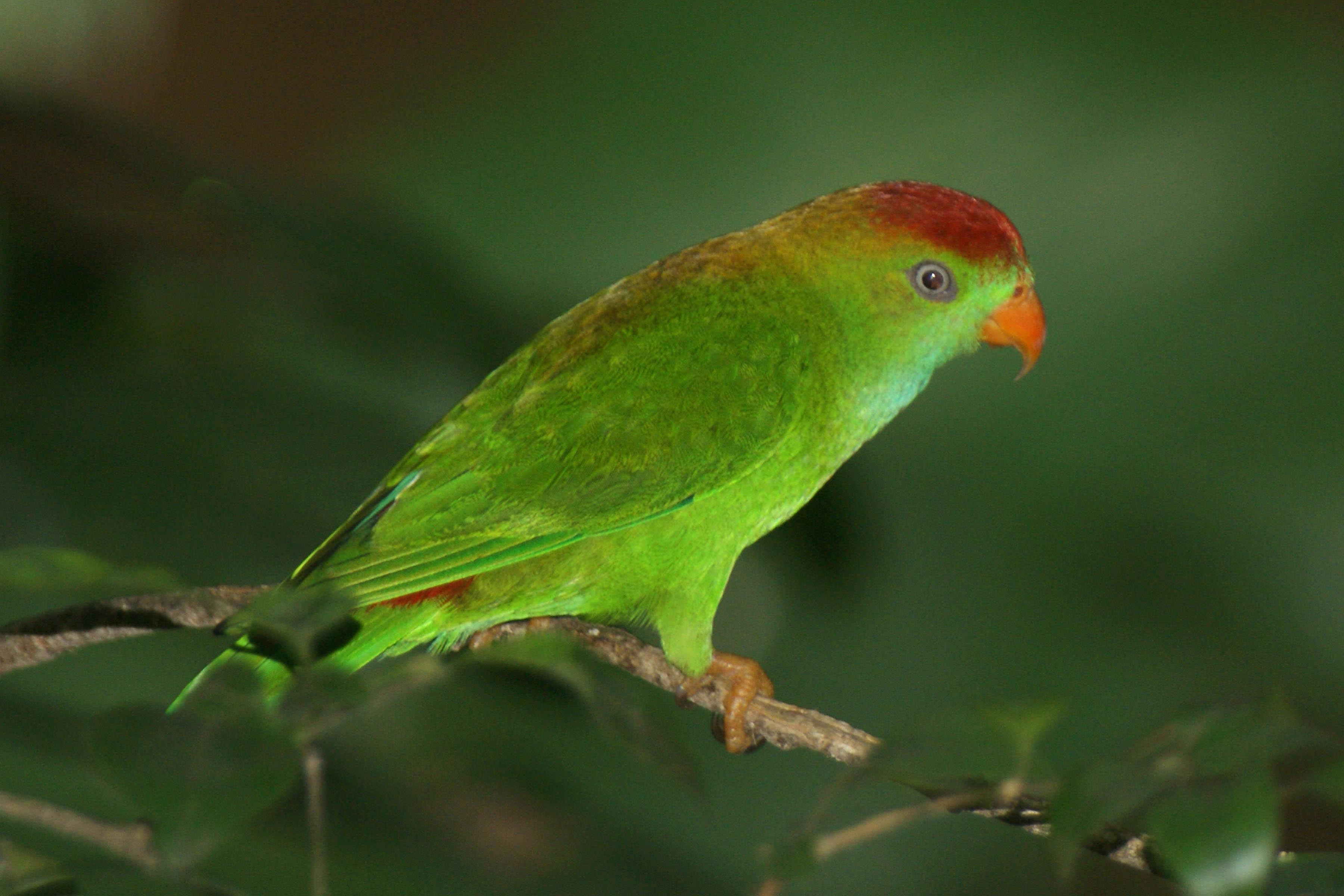 An adult Sri Lanka Hanging Parrot perching on a branch, National Zoological Gardens, Colombo, Sri Lanka.